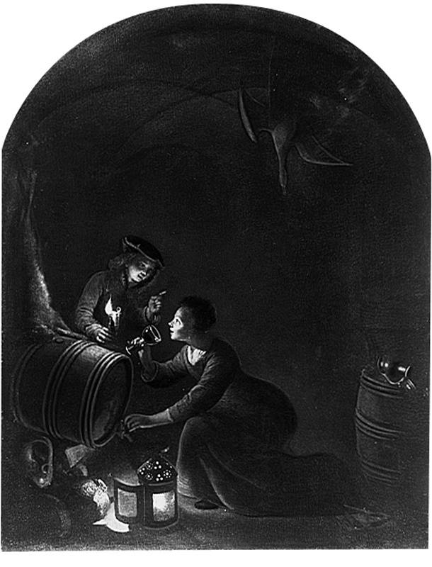 'In the wine cellar', by Gerrit Dou, painted before 1665. This painting was part of the collections of the Gemäldegalerie Alte Meister in Dresden and and it has been missing since the end of World War II, in 1945. - Dimensions: 33 x 25 cm - Oil painting on wood